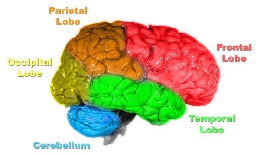 Lobes of the brain, color-coded.